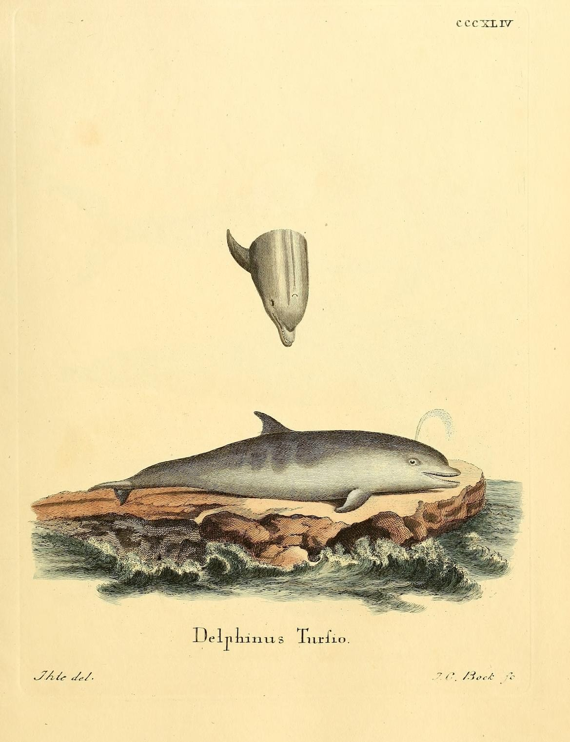 Tursiops truncatus syn. Delphinus tursio